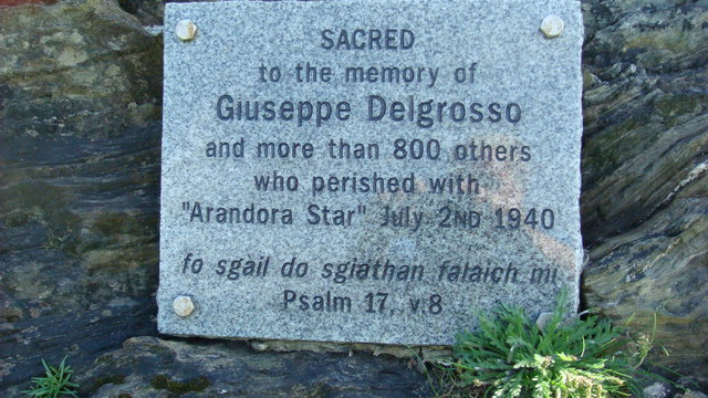 Memorial to Italian PoW's and others in magnificent setting above sea cliffs on W Colonsay